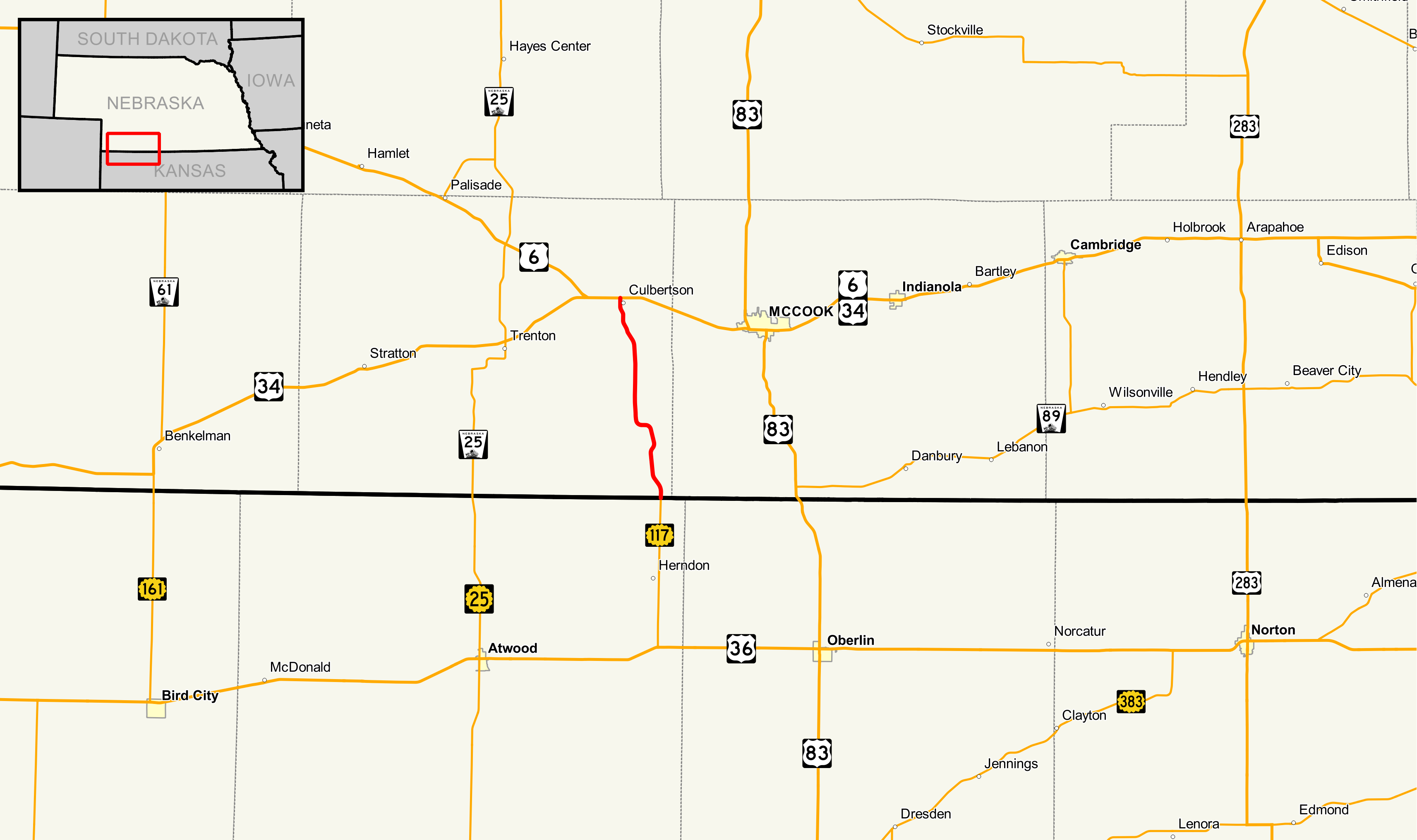 Map of Nebraska Highway 17 Data Sources: Nebraska Highways - - Dec 2016 Nebraska County Boundaries - - Dec 2016 Nebraska City Boundaries - - Dec 2016 This PNG graphic was created with QGIS